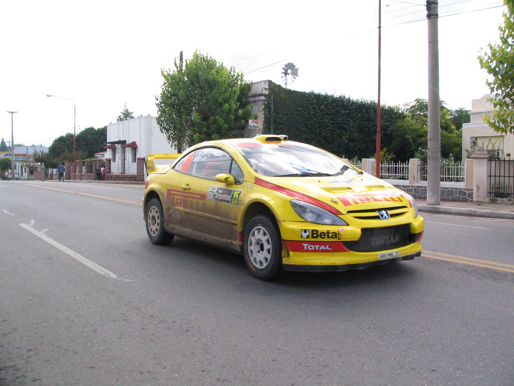 Gigi Galli driving his Peugeot 307 WRC at a road section during the 2006 Rally Argentina.